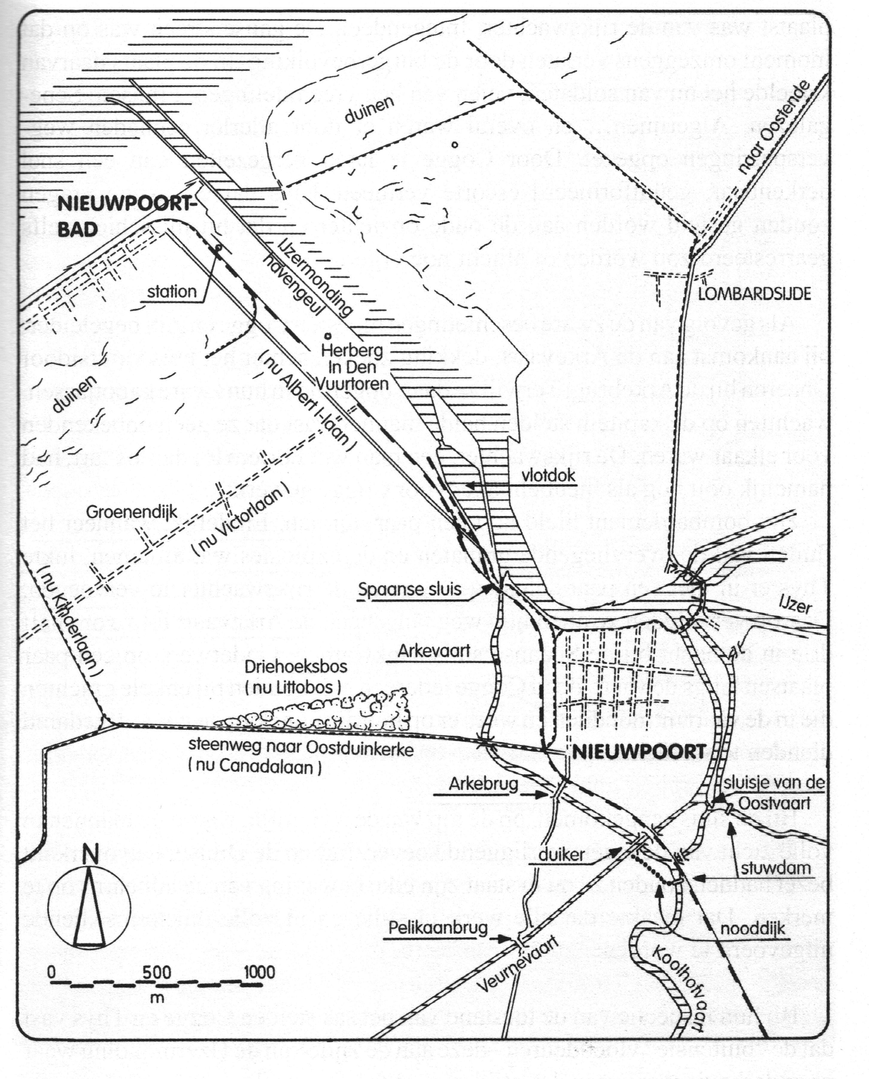 A general view of the waterways from the sea tot the East of the town of Nieuwpoort